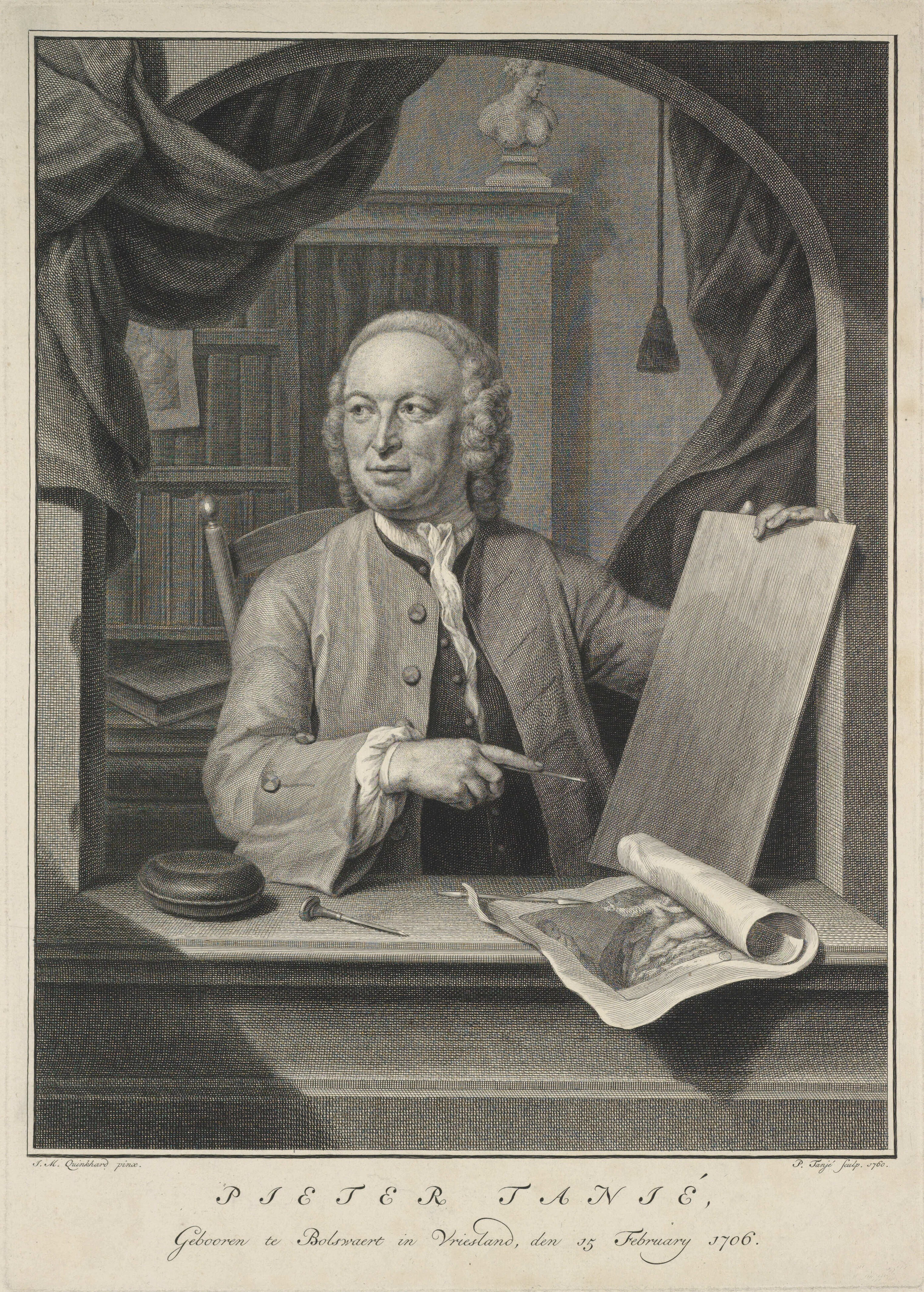 Pieter Tanjé engraving 43,2 x 34,6 mm inscribed b.l.: J.M. Quinkhard pinx. inscribed b.r.: P. Tanjé sculp. 1760. inscribed b.c.: PIETER TANJÉ, / Gebooren te Bolswaert in Vriesland, den 15 February 1706.